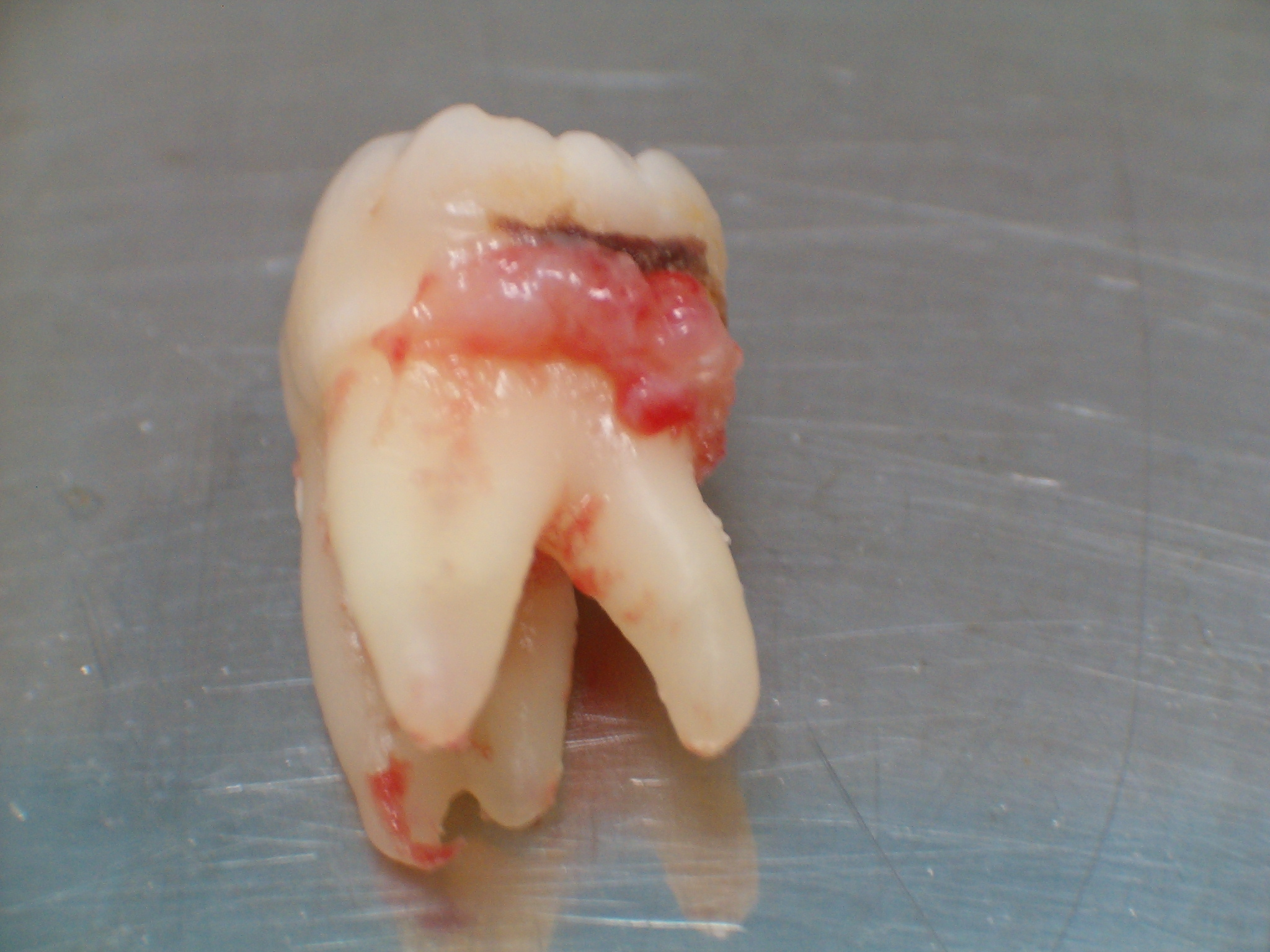 1st lower molar with three roots